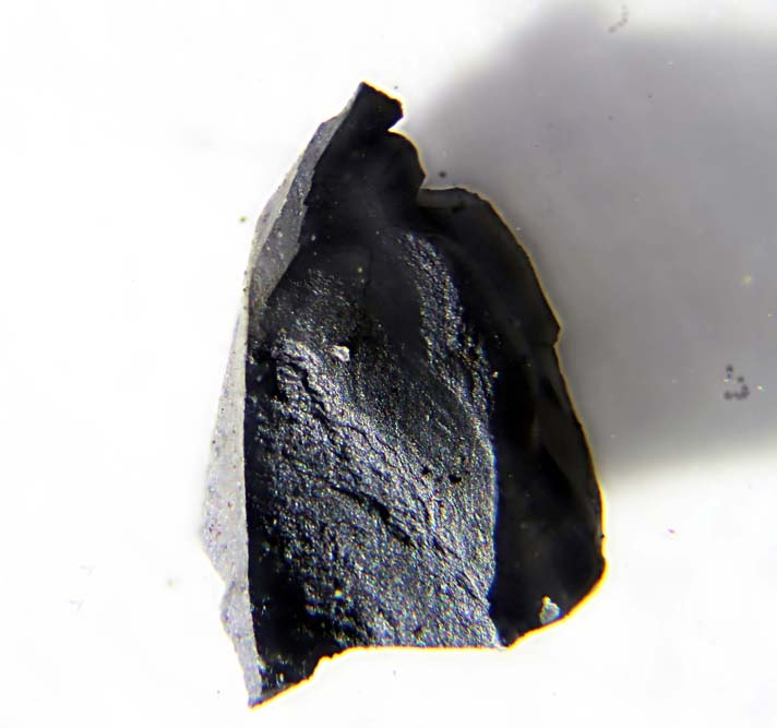 A black single crystal of the extremely rare mineral janggunite from the type locality: Janggun Mine, Bonghwa-gun, Gyeongsangbuk-do, Korea (Republic). Janggunite is a manganese mineral only known from three localities worldwide.